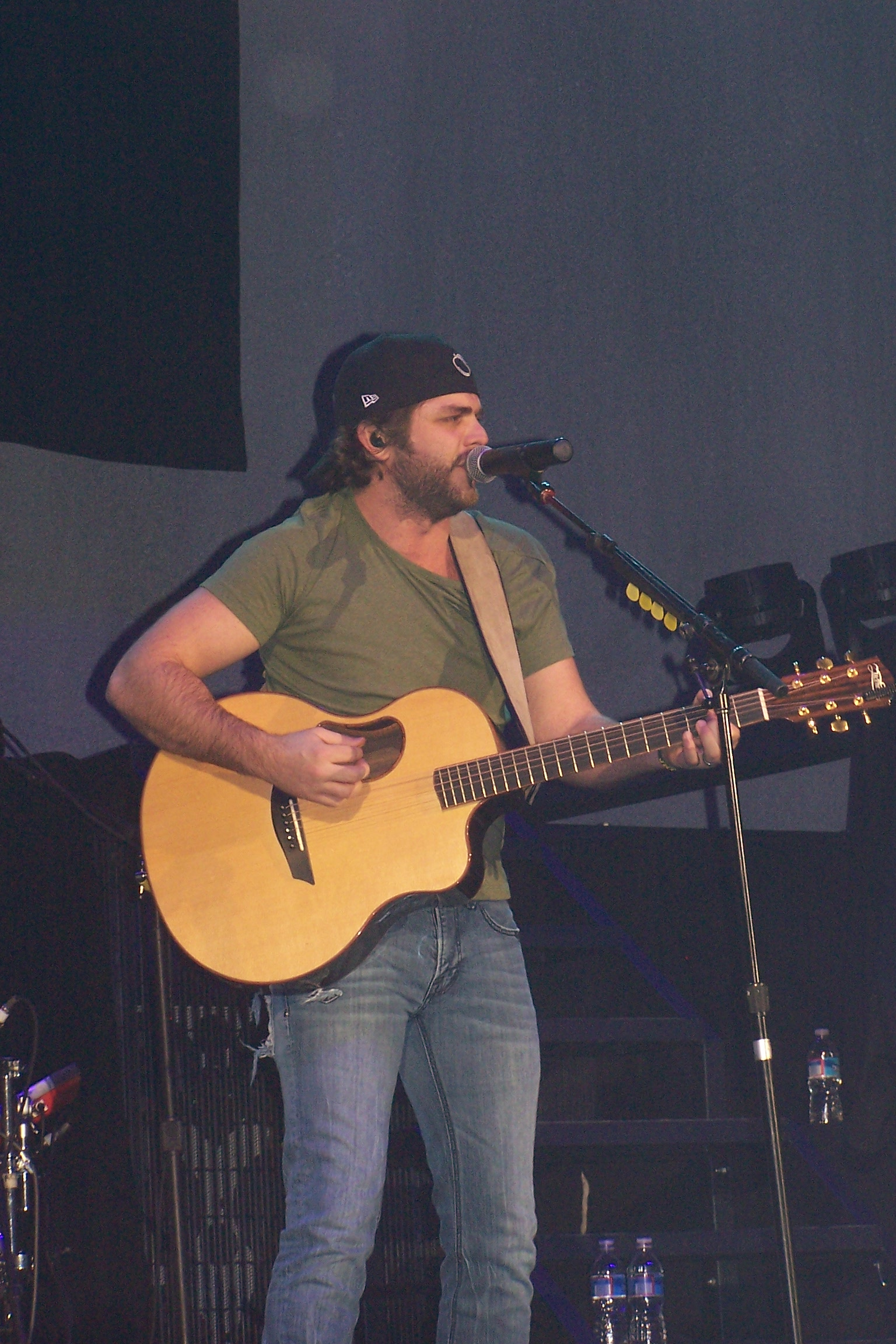 Thomas Rhett performing in Baltimore, MD on January 24, 2013.